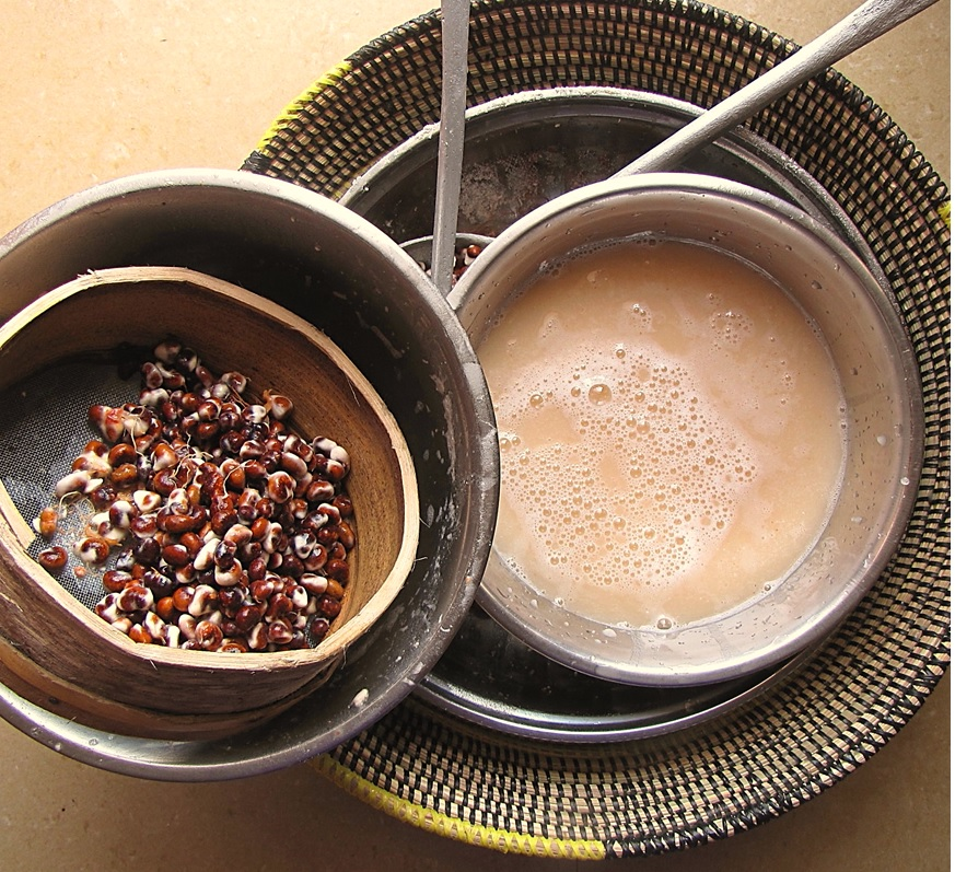 Shown from the Adansonia digitata baobab tree, baobab juice (bouye in Wolof - names vary) is produced by dissolving the chunky, pale, naturally dry fruit pulp with water and hand-working the wet pulp off the brown seeds and pinkish fibers. The dissolving pulp quickly turns clear water a pale pinkish opaque color. All seeds and fibers are removed with one straining through a fine sieve. The baobab fruit pulp is high in vitamin C and quite tart so sugar is usually added before serving.